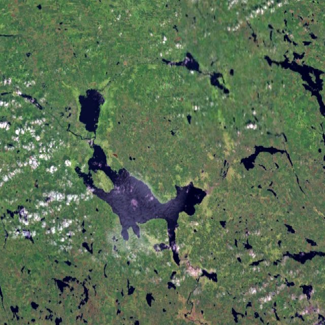 Siljan impact crater. Several lakes trace the remnants of the eroded impact crater that was formed by a meteorite impact about 370 million years ago. With a diameter of 55 km it is the largest impact structure in Europe. Lake Siljan is the large lake in the south of the ring.